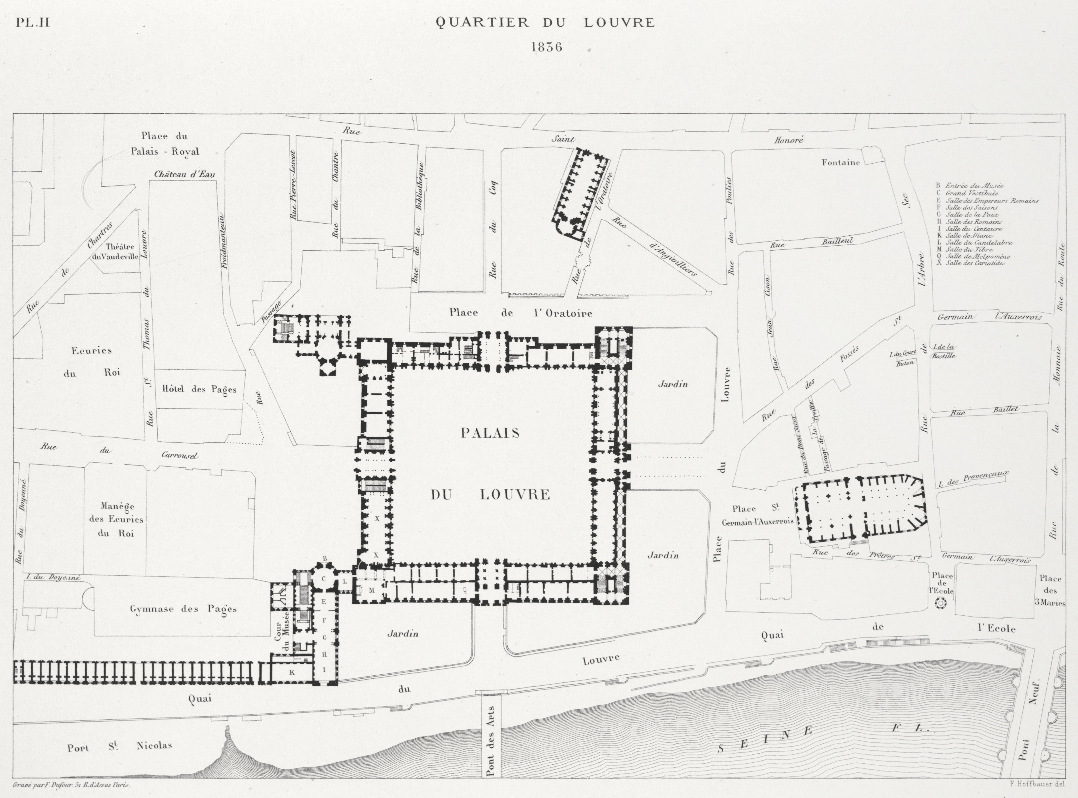 Map showing the Louvre in 1836. The overlay shows the Louvre in 1876.